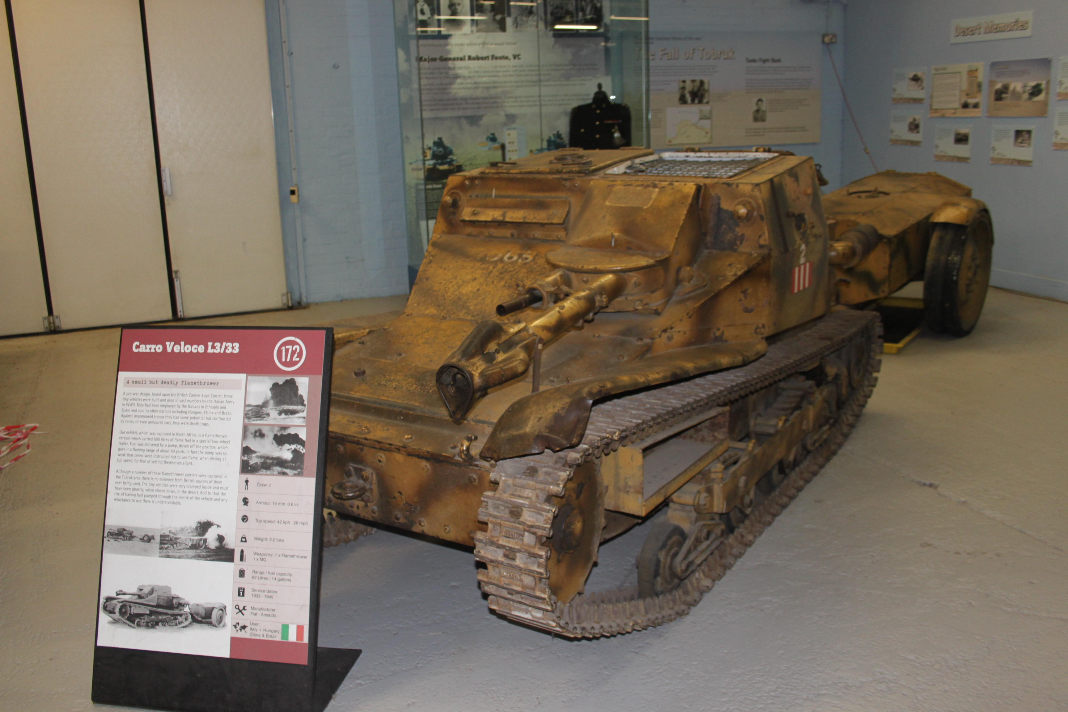 Carro Veloce L3 33 at the Tank Museum